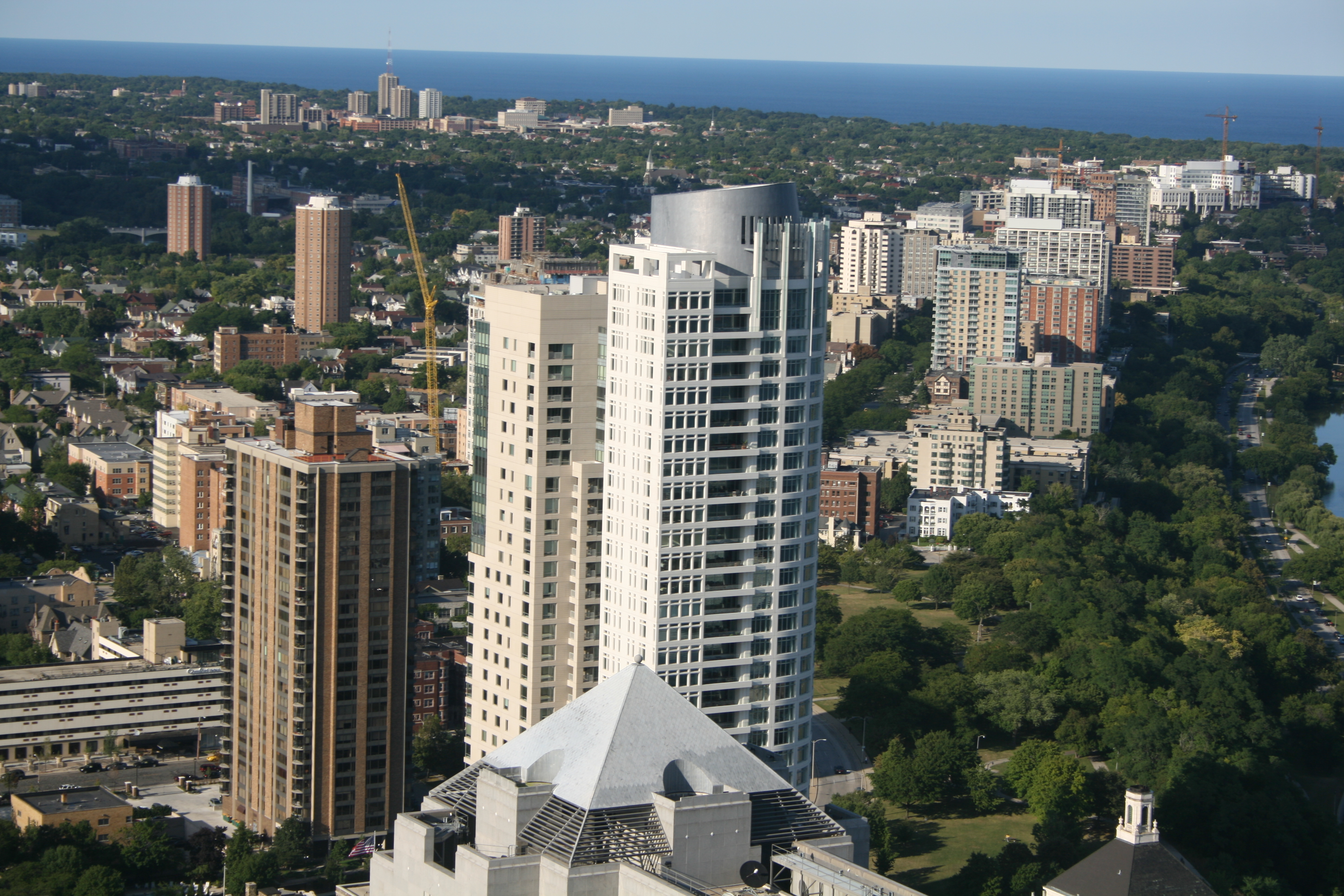 The University Club Tower and Kilbourn Tower anchor a stretch of towers that line Prospect Avenue.